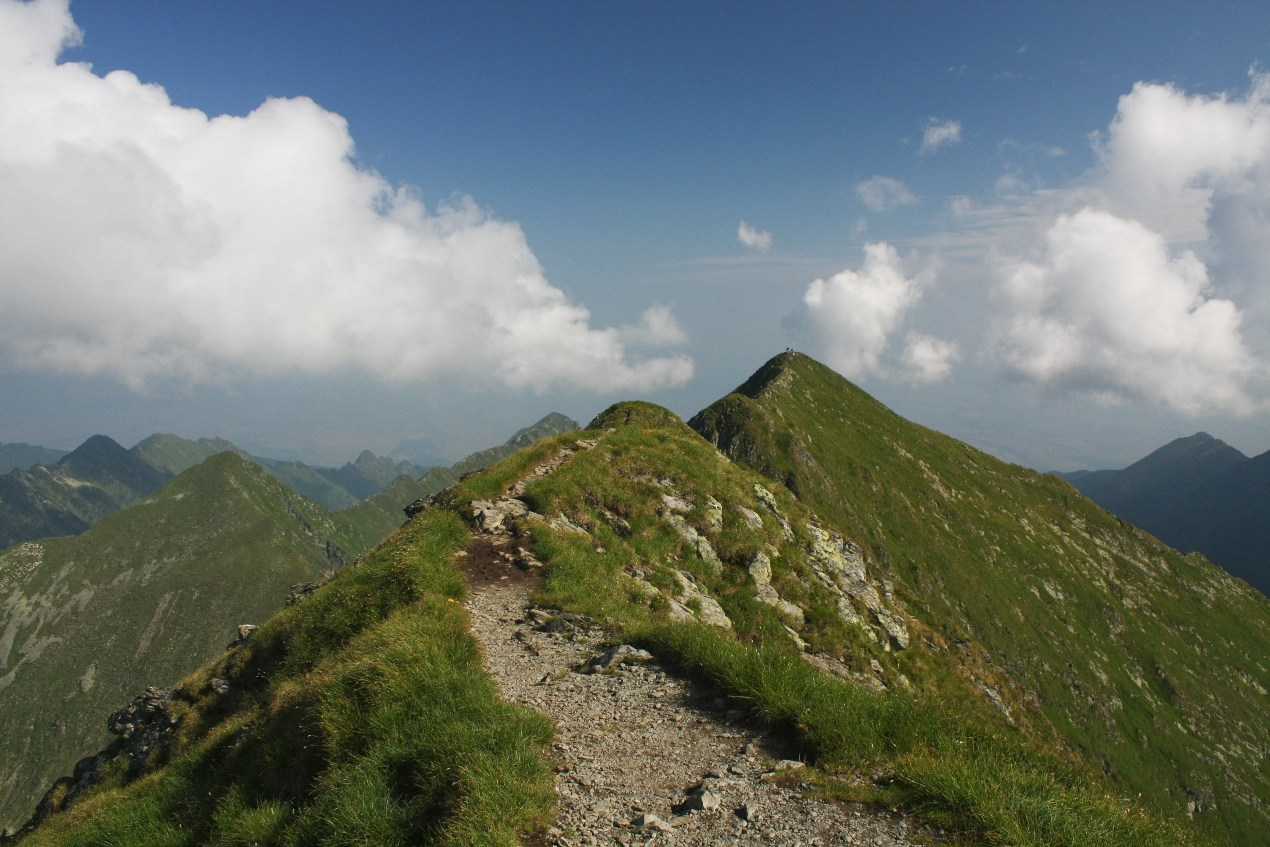 Făgăraş Mountains, Romania - Viştea Mare taken from Moldoveanu